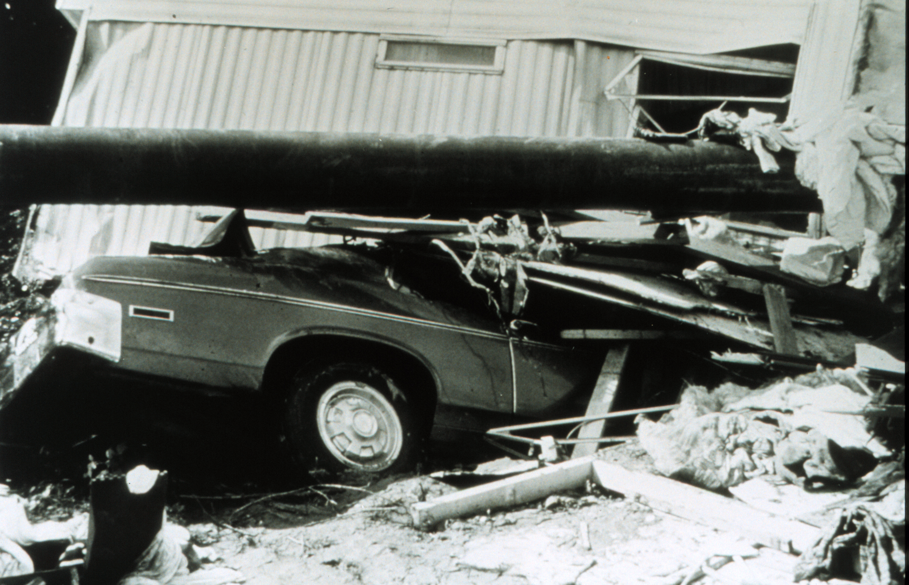 Trailer, vehicle, and utility pole in jumbled pile following a flash flood. Toccoa, Georgia.